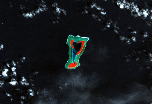 Landsat 7 false-colour image of Mokil Atoll, Pohnpei State, Federated States of Micronesia